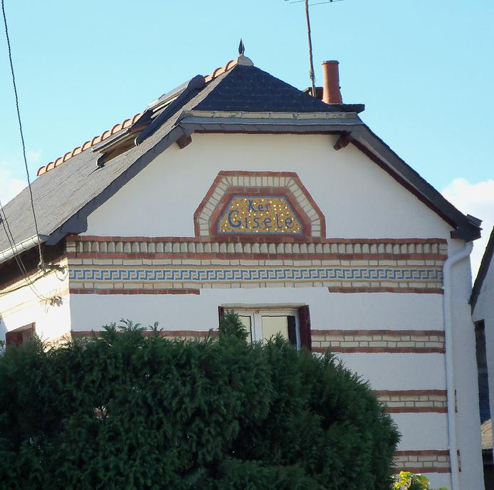 Mosaic about first name in wall of an french house.